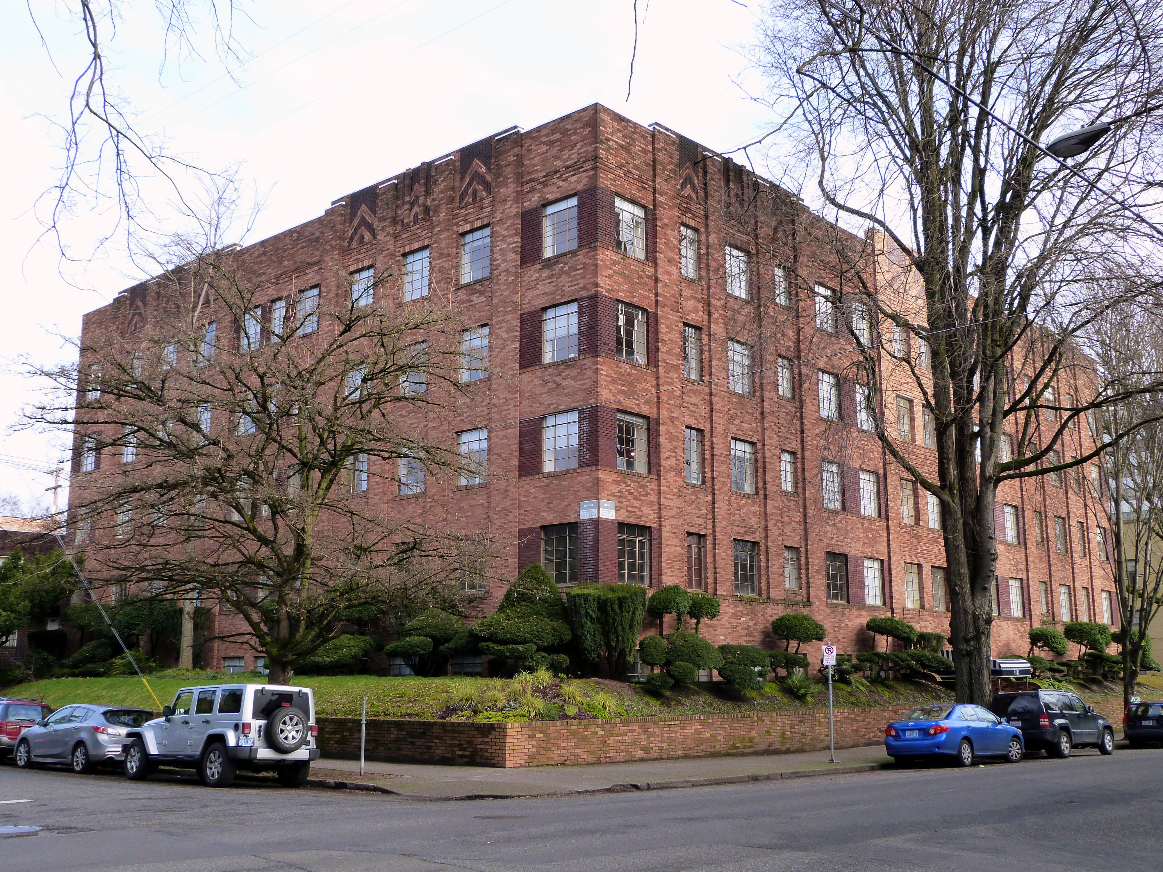 The historic Regent Apartments (built 1937), located at 1975 Northwest Everett Street in Portland, Oregon, United States, is listed on the US National Register of Historic Places. Additionally, it is listed as a contributing resource in the National Register-listed Alphabet Historic District.